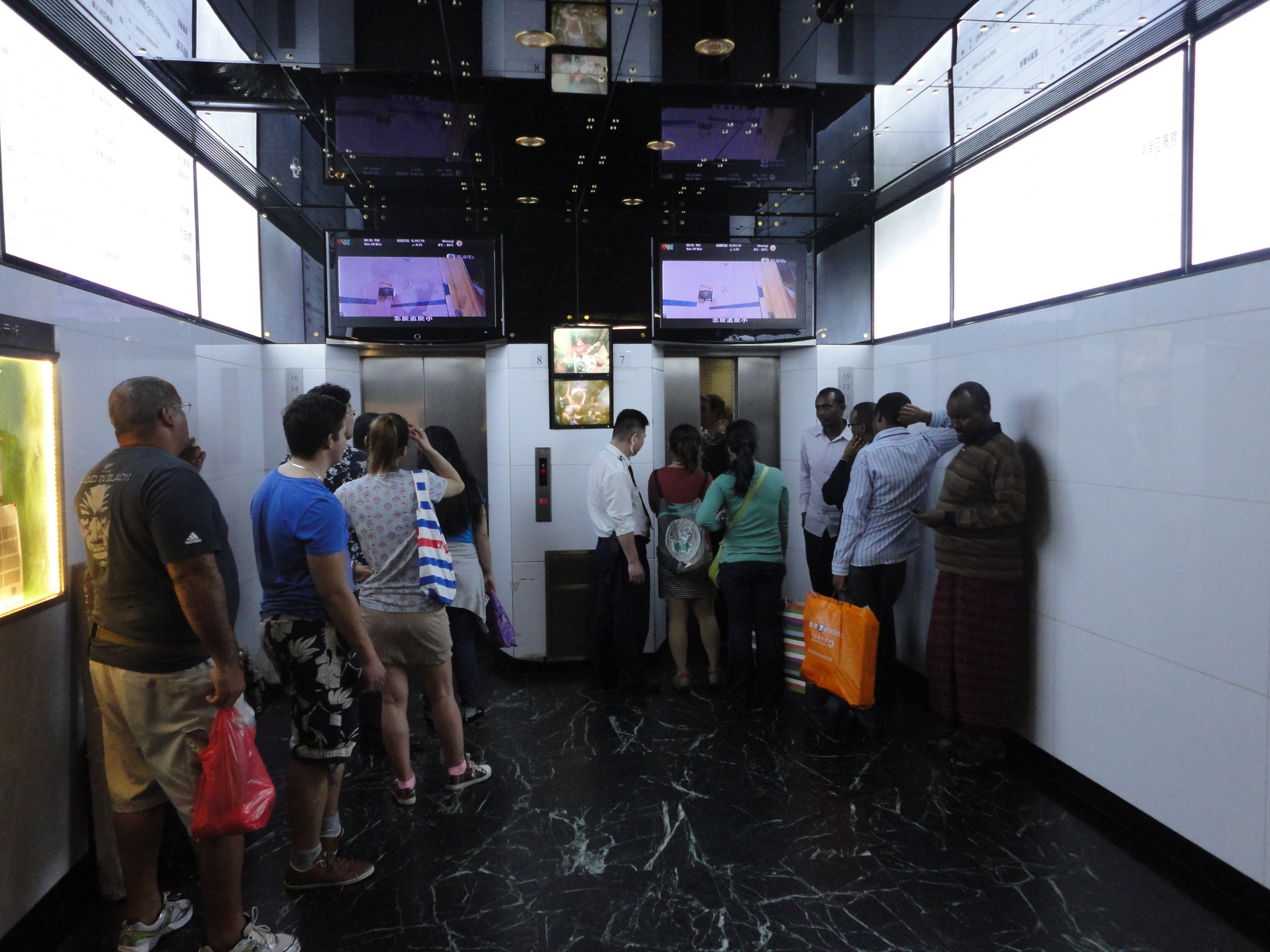 Waiting lines in front of block d elevators of Chungking Mansions. A security guard oversees the waiting lines and CCTVs of the elevator interior. Each elevator serves different floors, even or odd numbers. The elevators are equipped with load sensors and refuse service when overloaded.